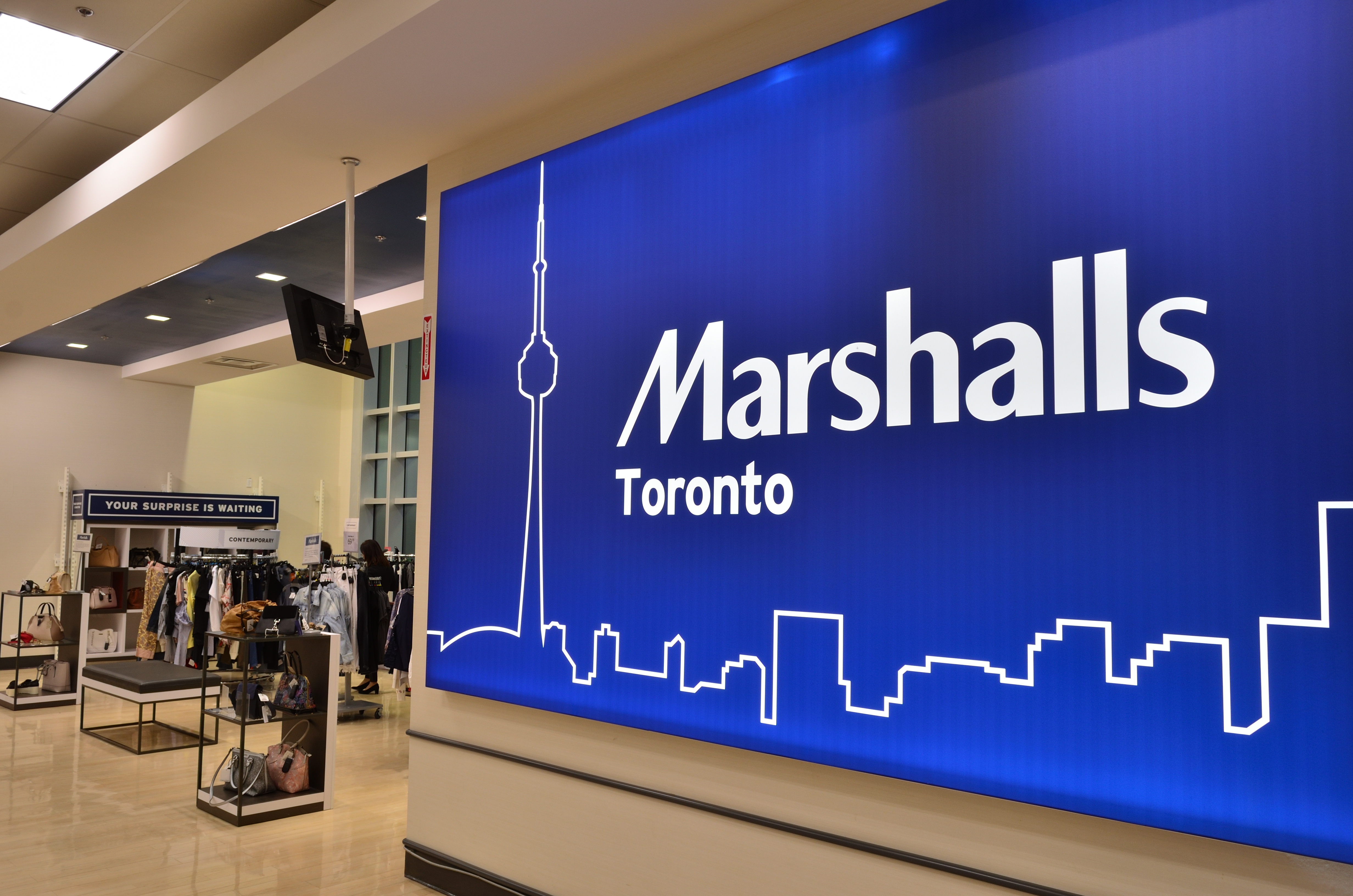 Marshalls The Shops at Aura - Address: Aura 382 Yonge Street Toronto, ON M5B 1S8